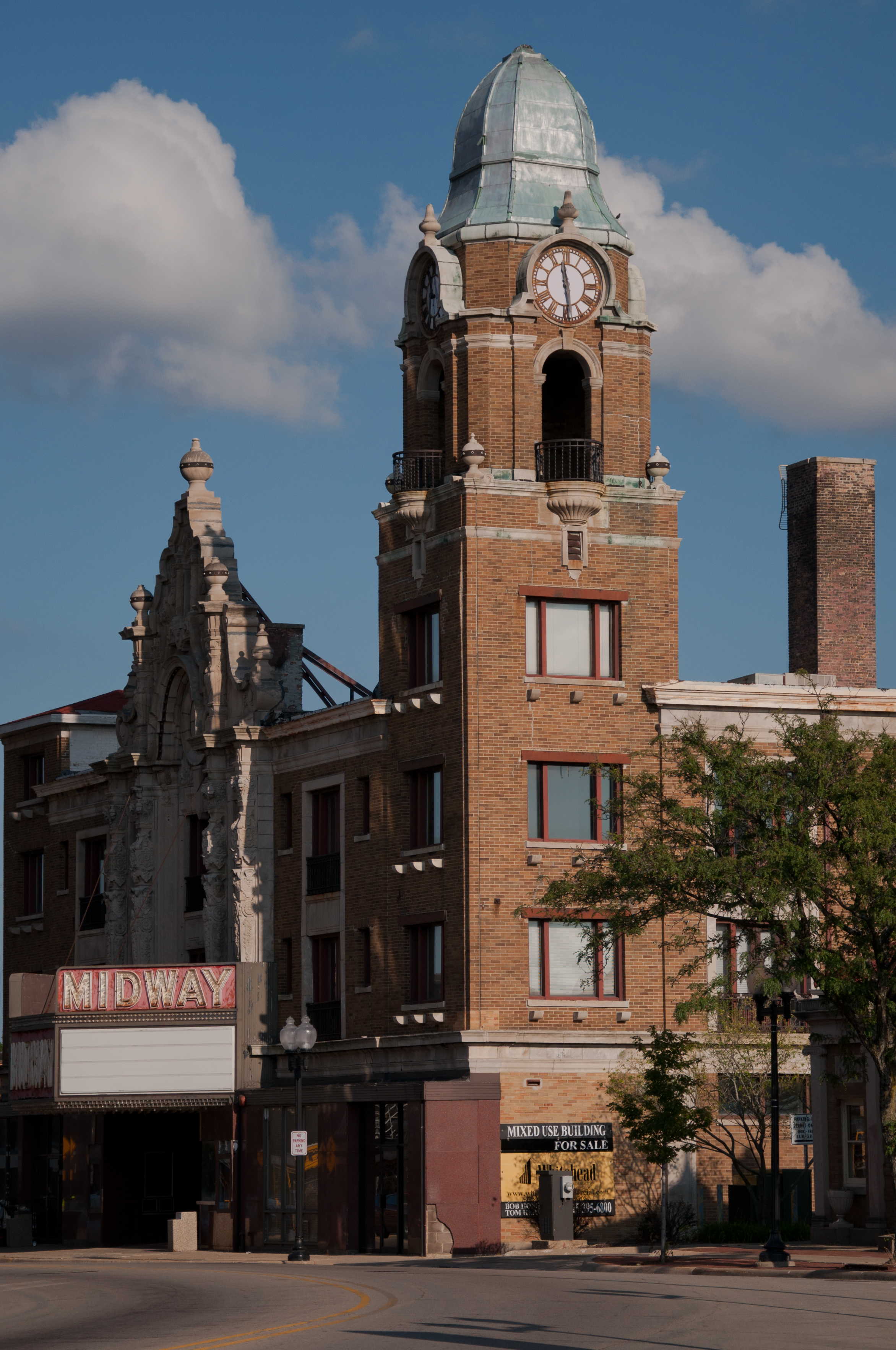 Opened on August 3, 1918, this former movie house last hosted various live performances, from comedians to metal concerts. The theater closed in the mid-2000's.